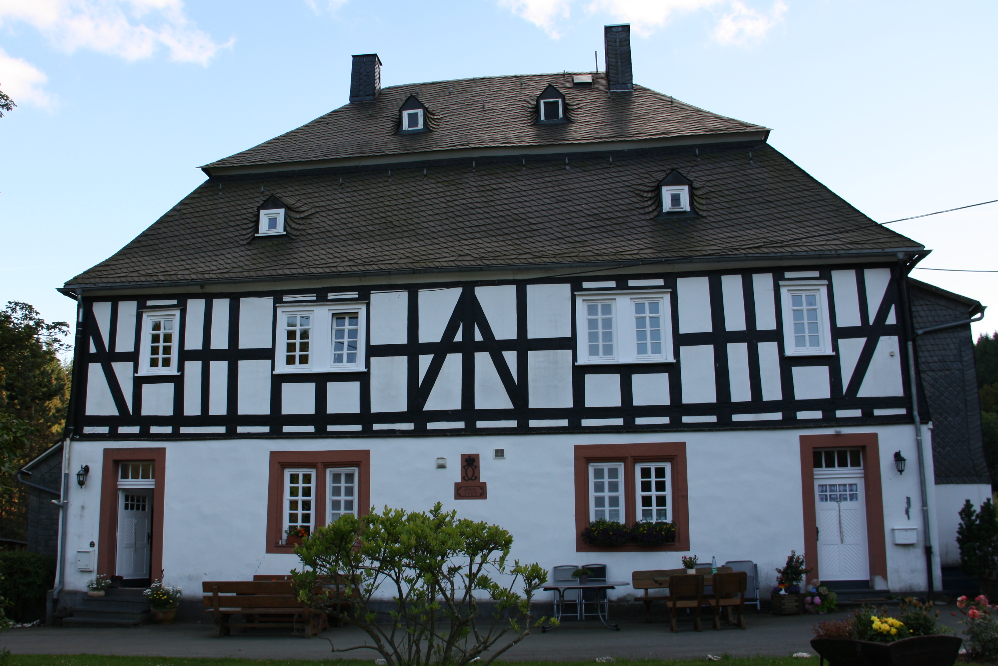 This is a photograph of an architectural monument., no. 067